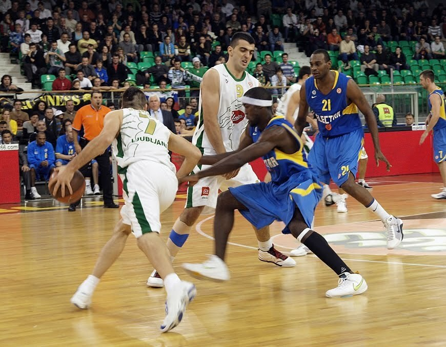 KK Union Olimpija vs Maccabi Tel Aviv in Hala Tivoli, Euroleague 2009/10